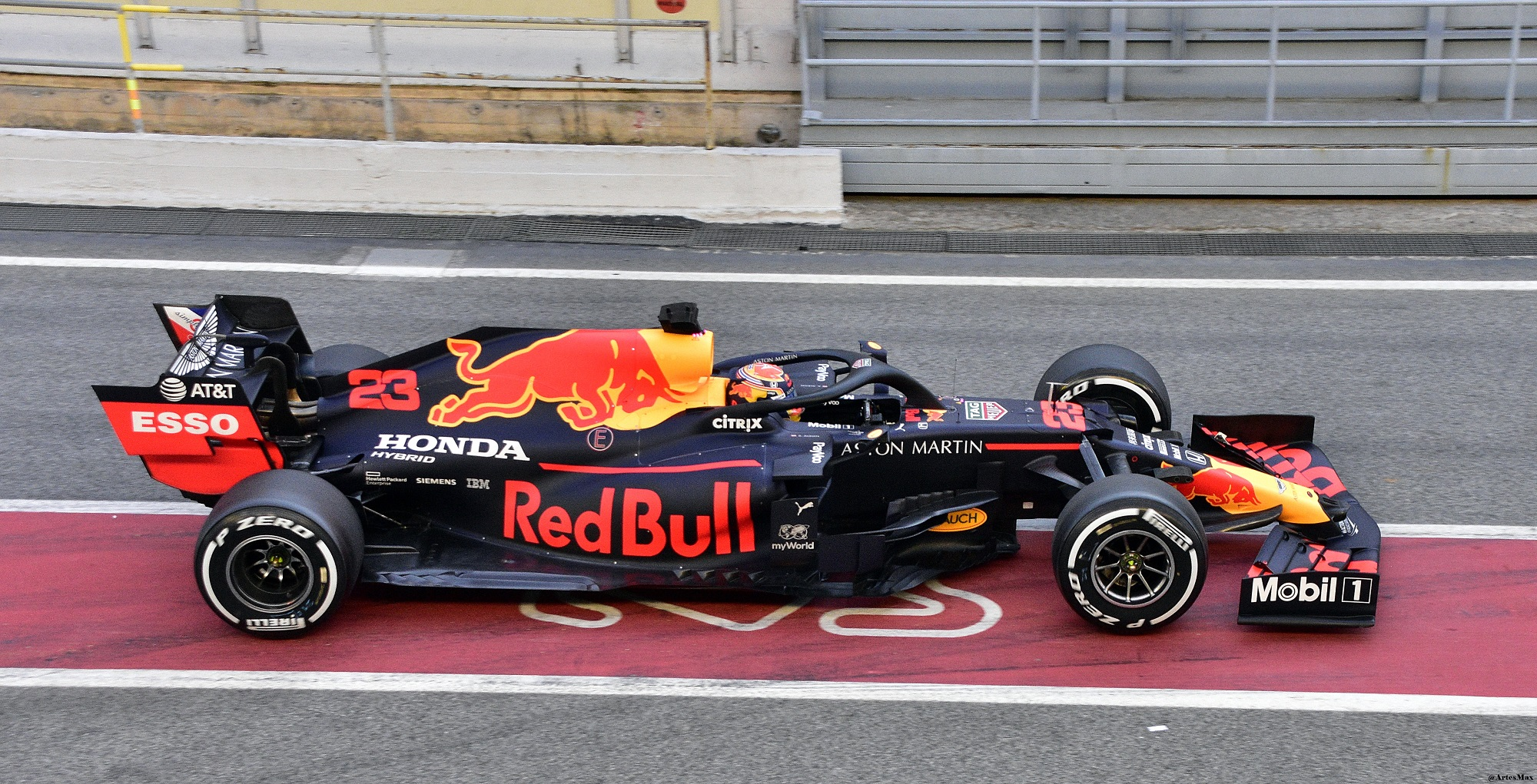 Alexander Albon driving the Red Bull RB16 in Barcelona pre-season testing.